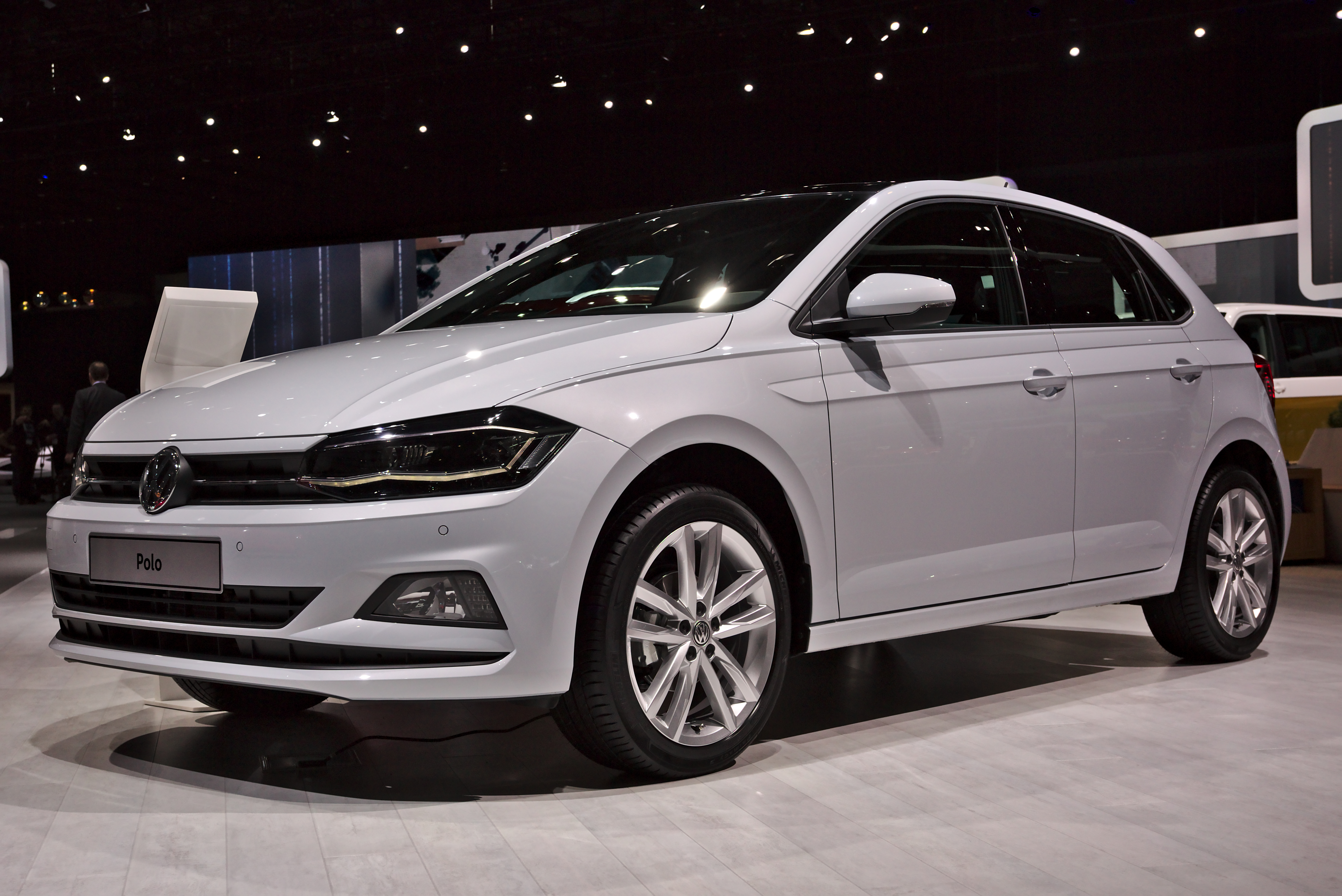 VW Polo at Geneva Motorshow 2018